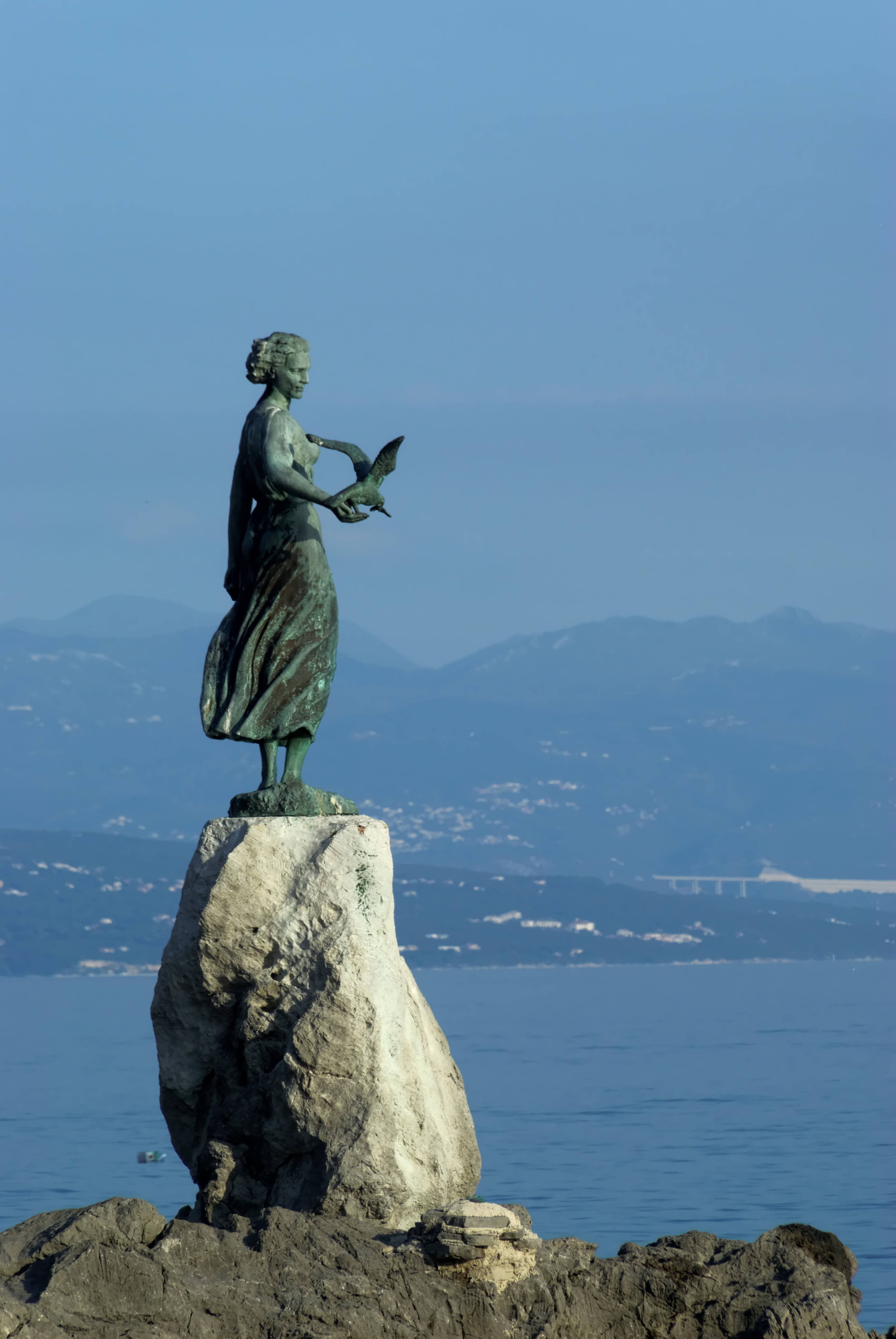 Croatia, Opatija, Women with dove